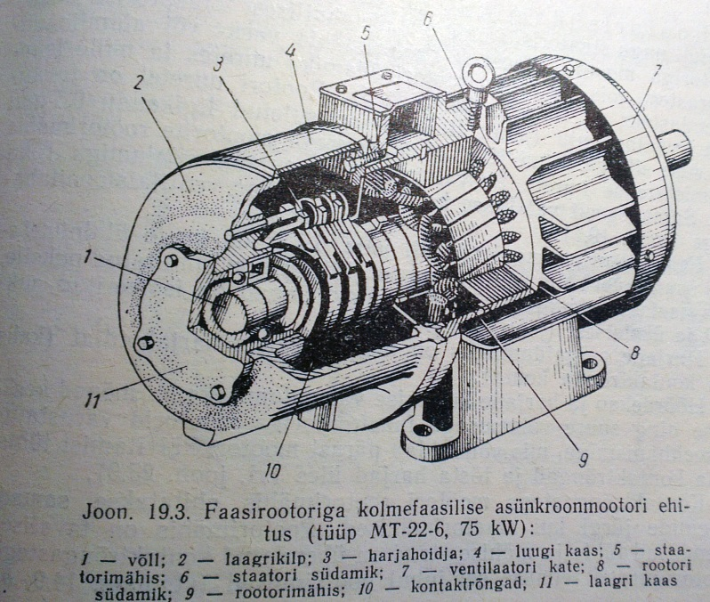 faasirootoriga mootori ehitus